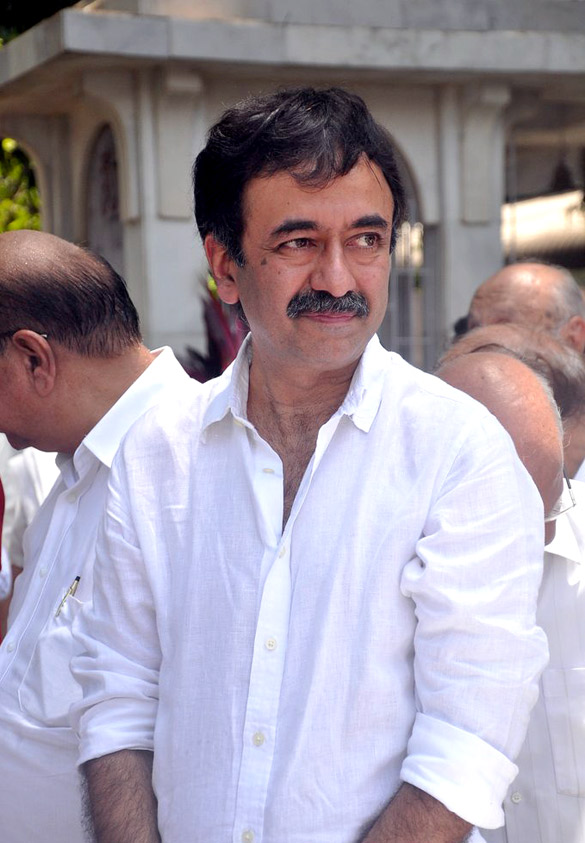 Rajkumar hirani at suresh hiranis funeral